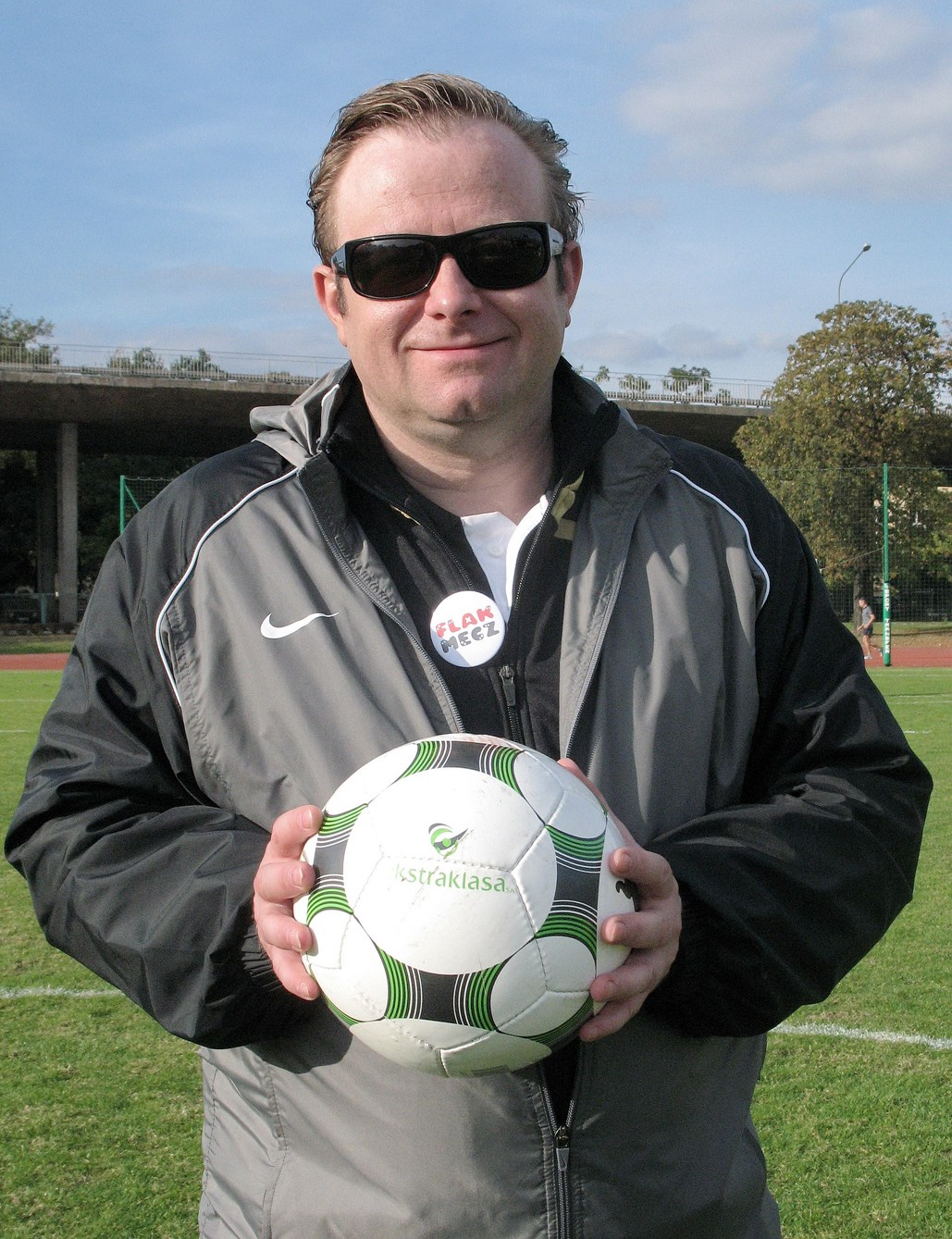 Olaf Lubaszenko in 2009.